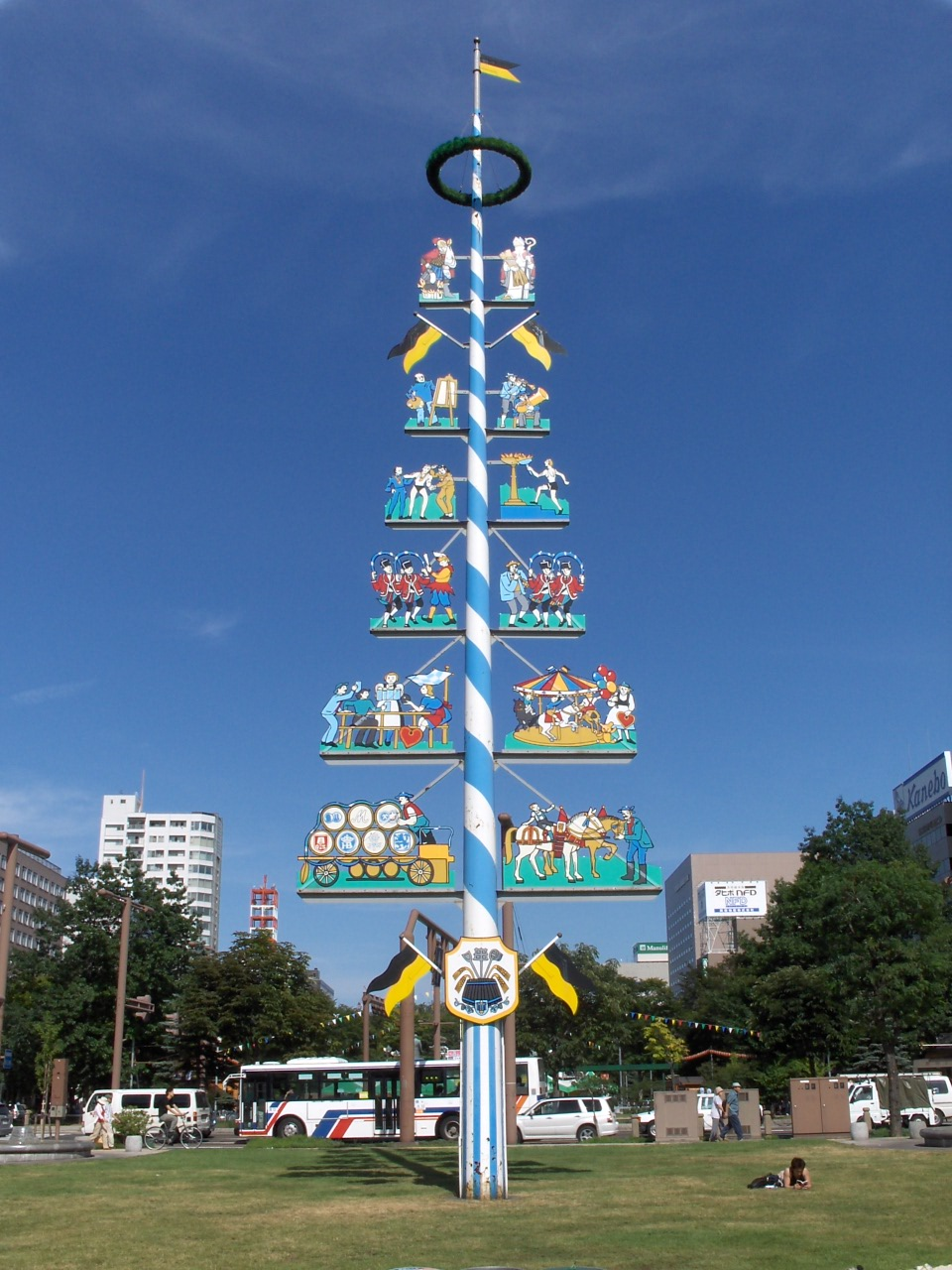 a Maibaum in Odori Park in Sapporo, Hokkaido, Japan. I took this picture around August 2006.